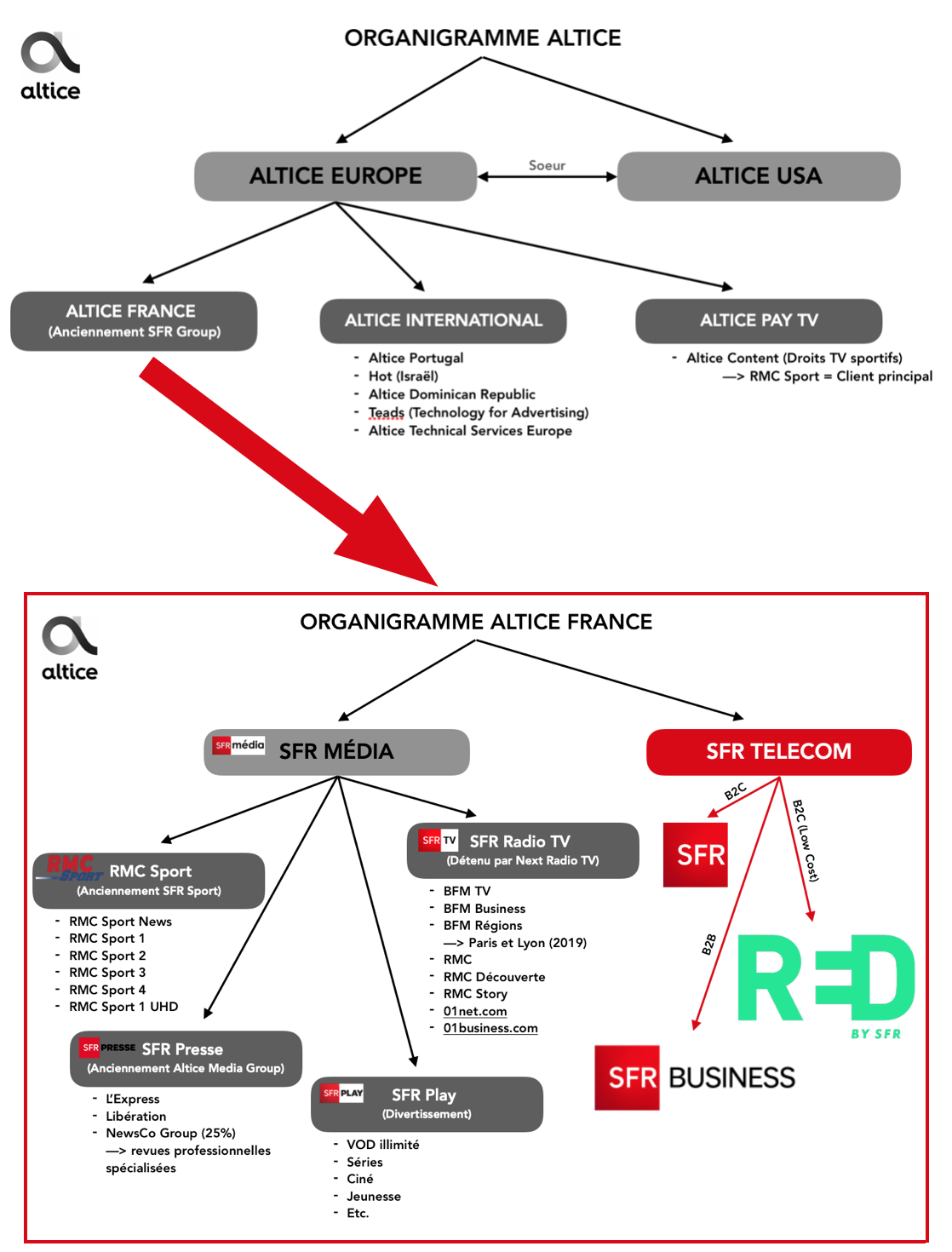 Synthesis of Altice's organizational chart (France and Europe) dating from 2018